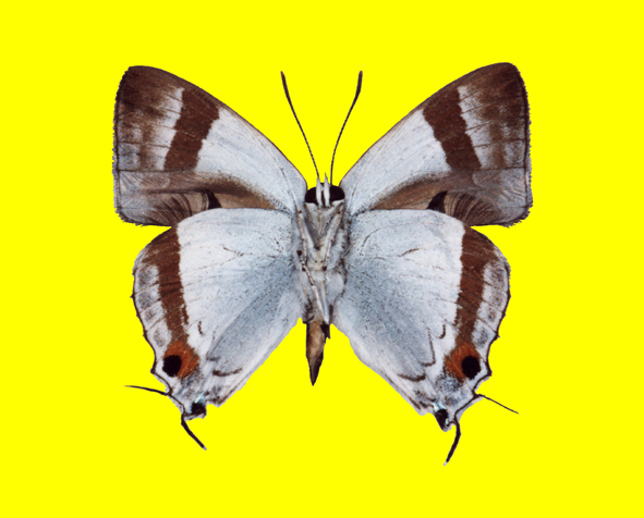 Rachana mioae, male, underside